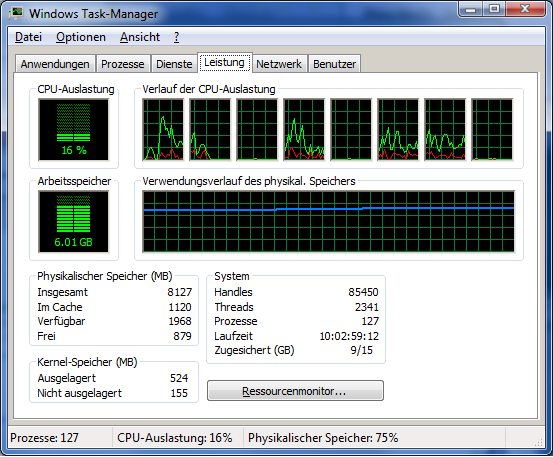 Graphical display of the CPU load